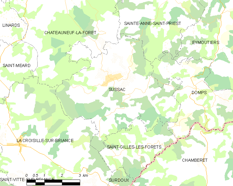 Map of French municipality Sussac